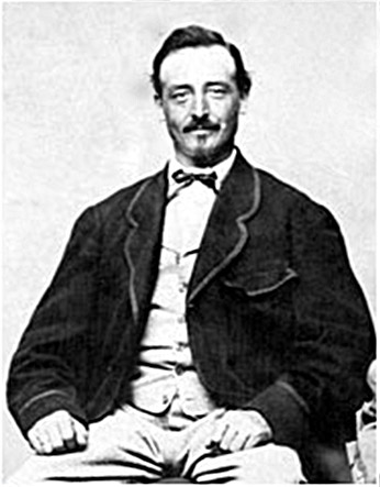 A photo of Frederick Miller, founder of Miller Breweries